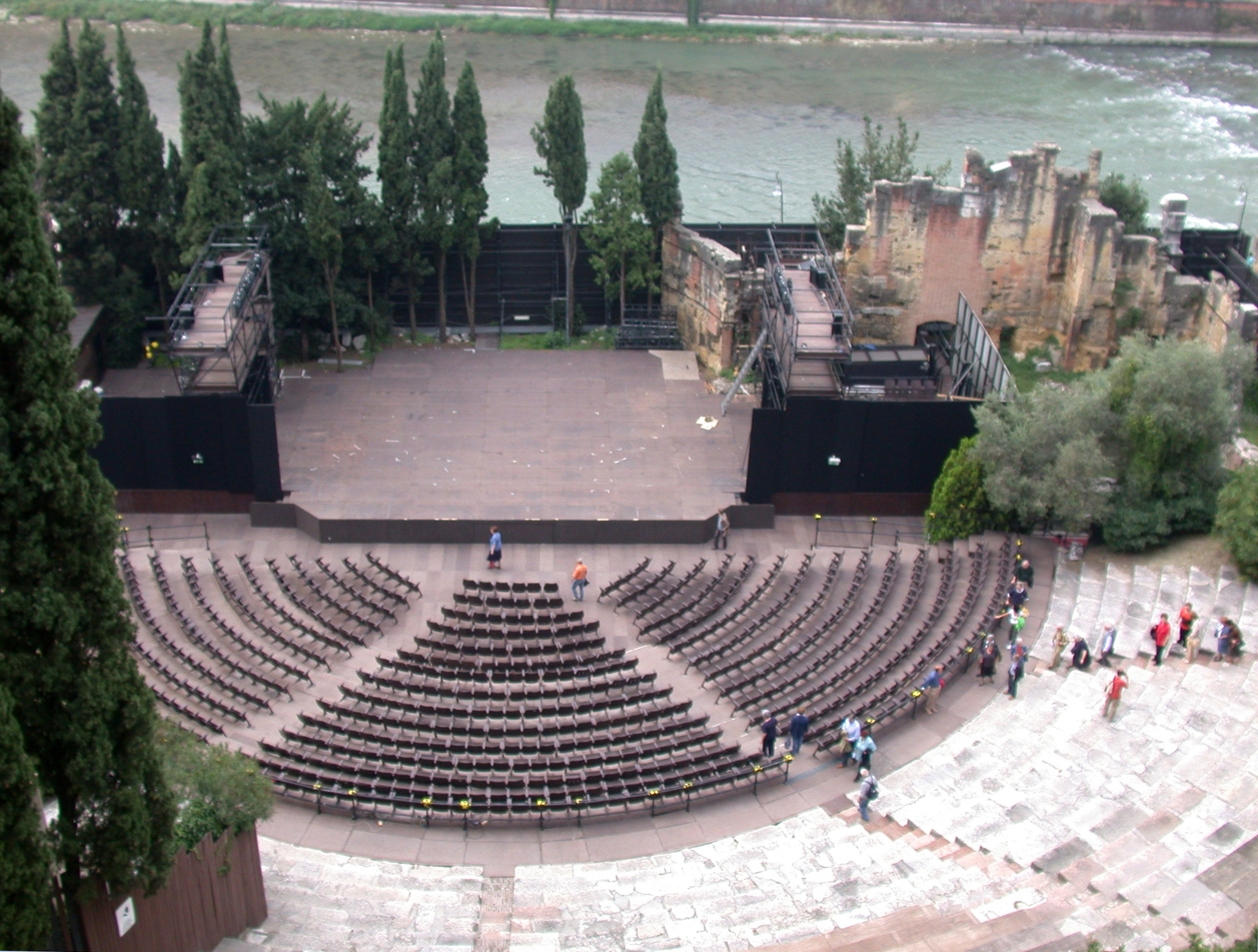 Verona, roman theater. Cavea seen from Archaeological Museum.